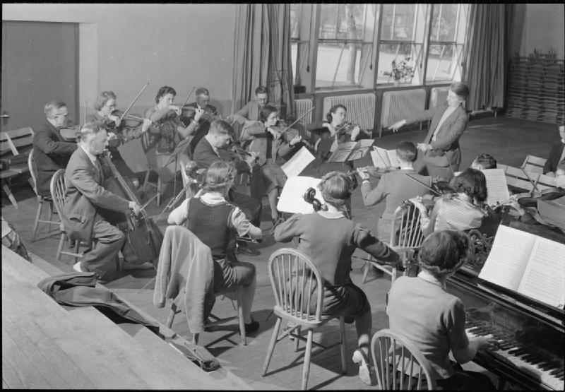 Youth Leaders at Impington College- Education and Training in Cambridgeshire, England, UK, April 1944 As part of a week-long course for members of the Youth Service, Miss E Smith (right) conducts a group of music students during a lecture by Cyril Winn on 'The Dance Idiom'. The students are playing violins, cellos and a piano during the lecture at Impington Village College. The original caption states that "Miss Smith is in charge of junior music at Dulwich College and takes an orchestral class for the London County Council".